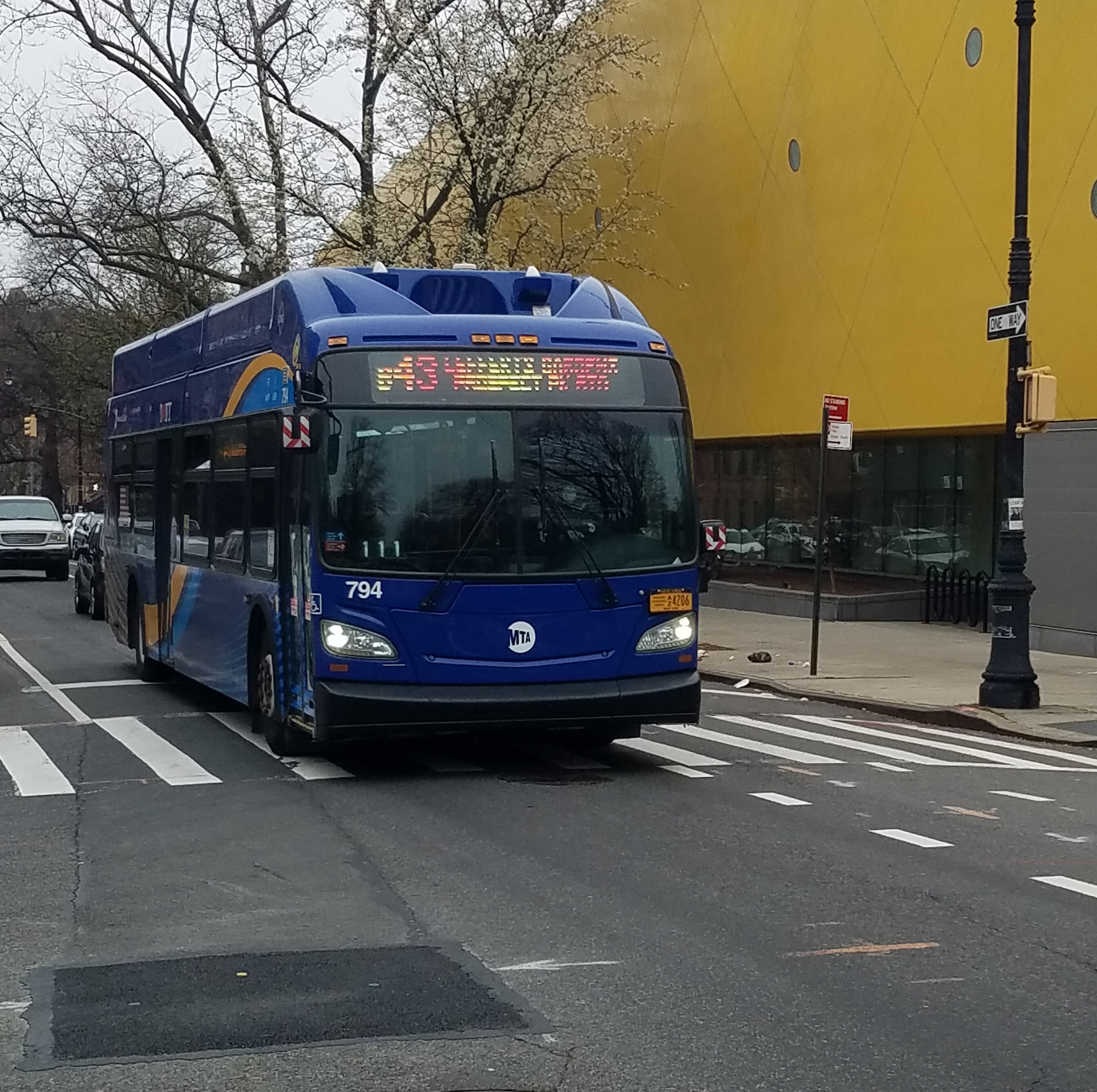 Southbound B43 bus in Brooklyn, New York, on Brooklyn Avenue in front of the Brooklyn Children's Museum.